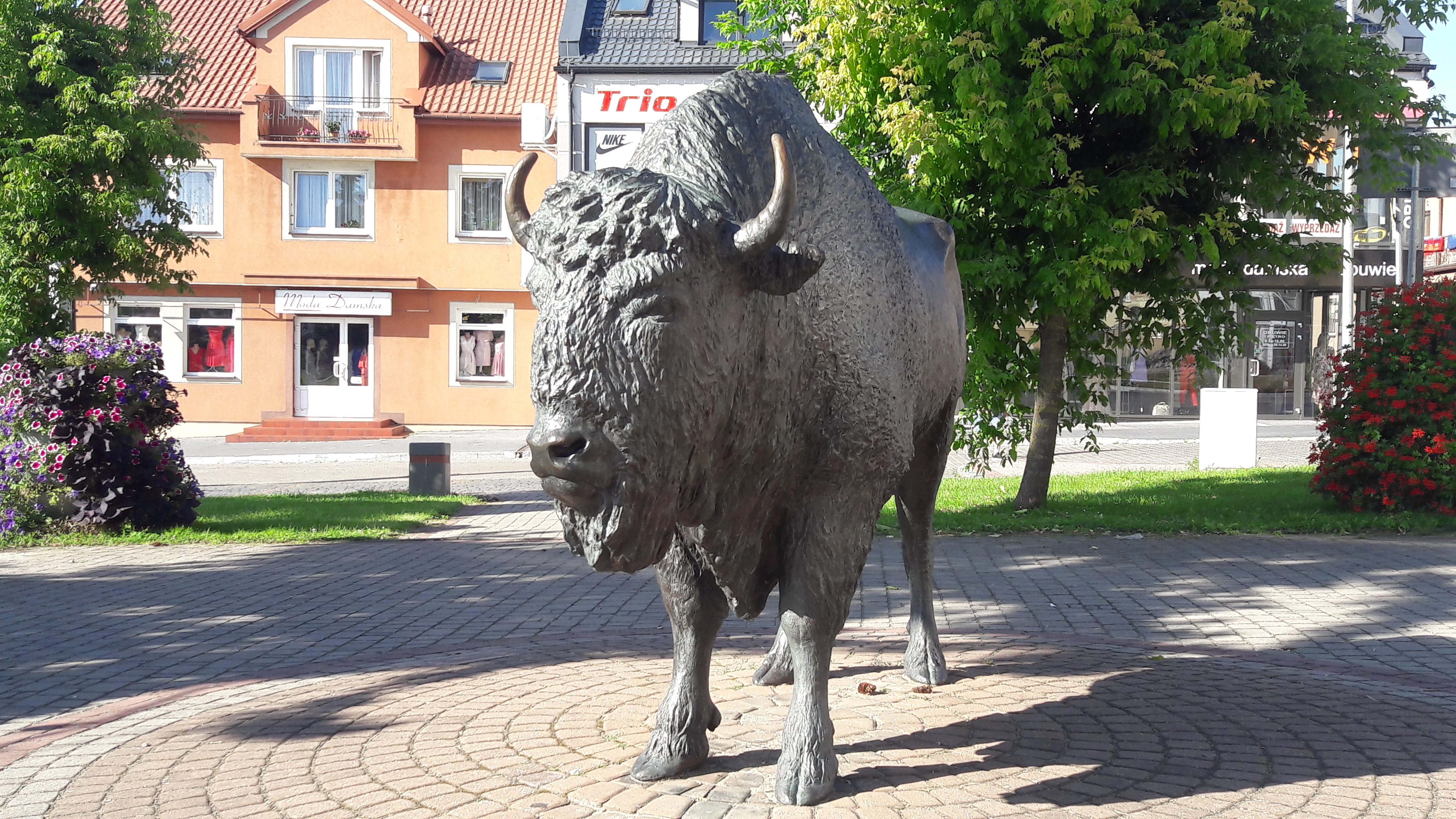 Pomnik żubra